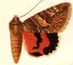 PLATE CXCVI.